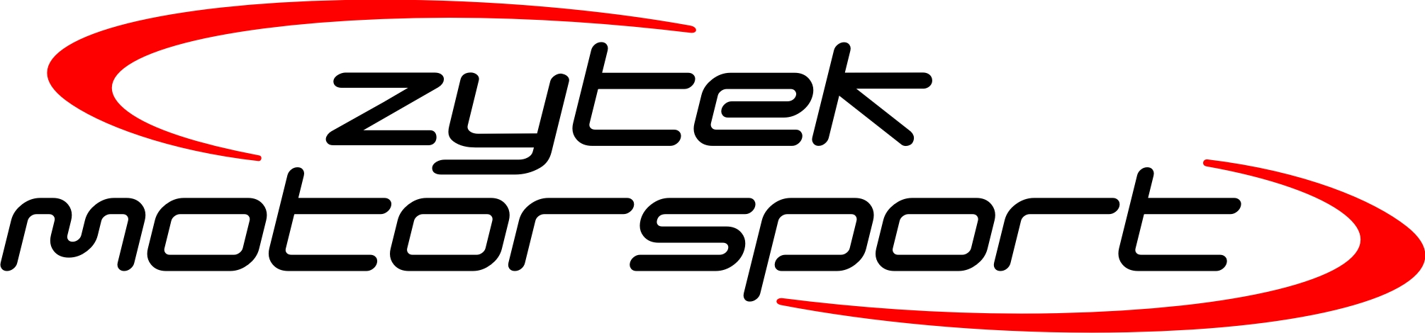 Zytek Motorsport Logo